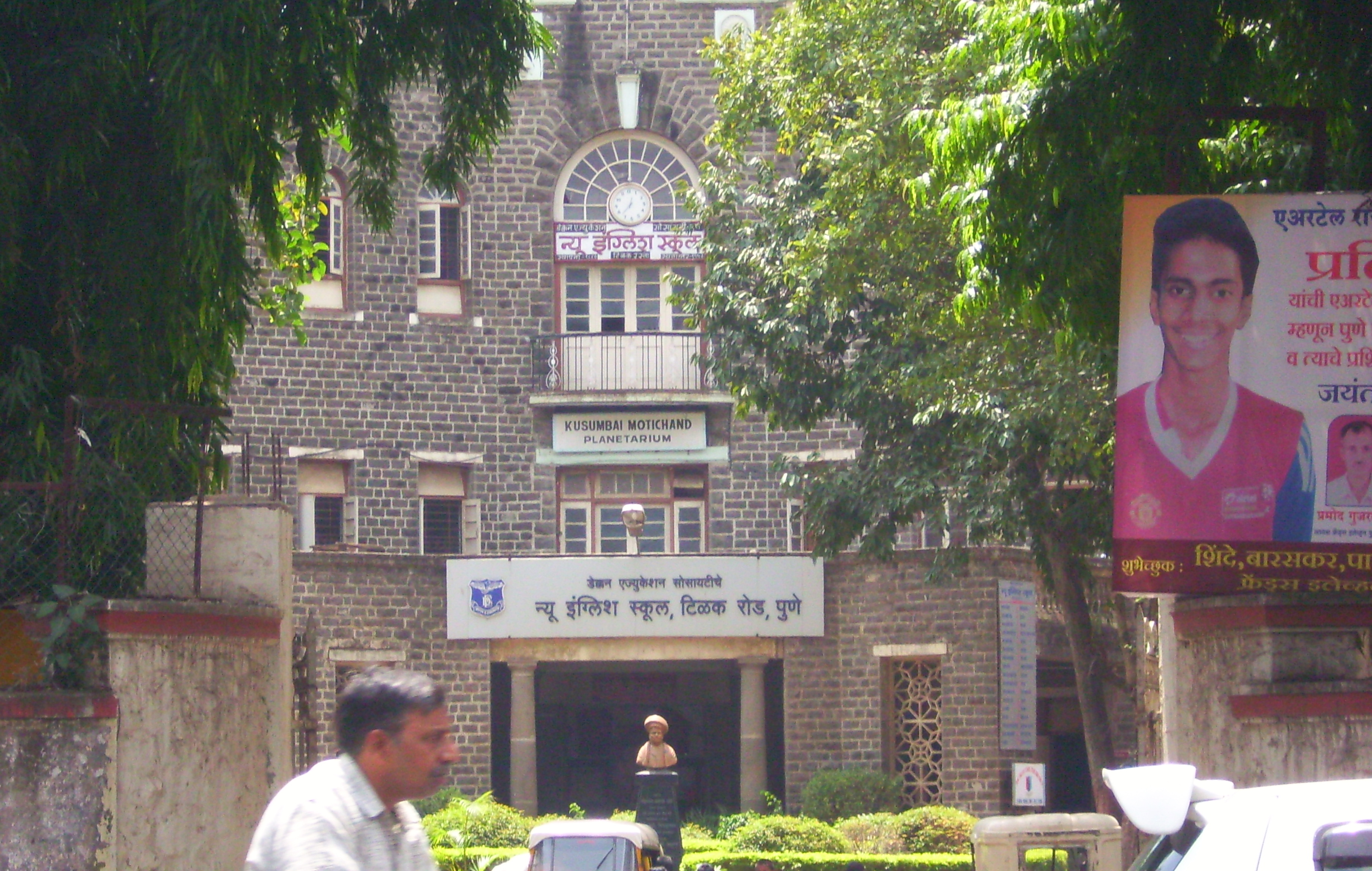 New english school in pune